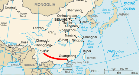 Schematic map of the HVDC line between Yunnan and Guangdong